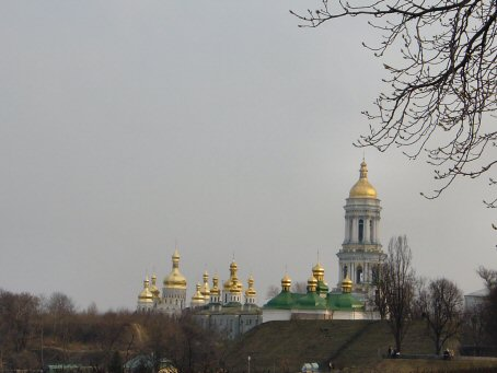 Cave monastery in Kiev, Ukraine.